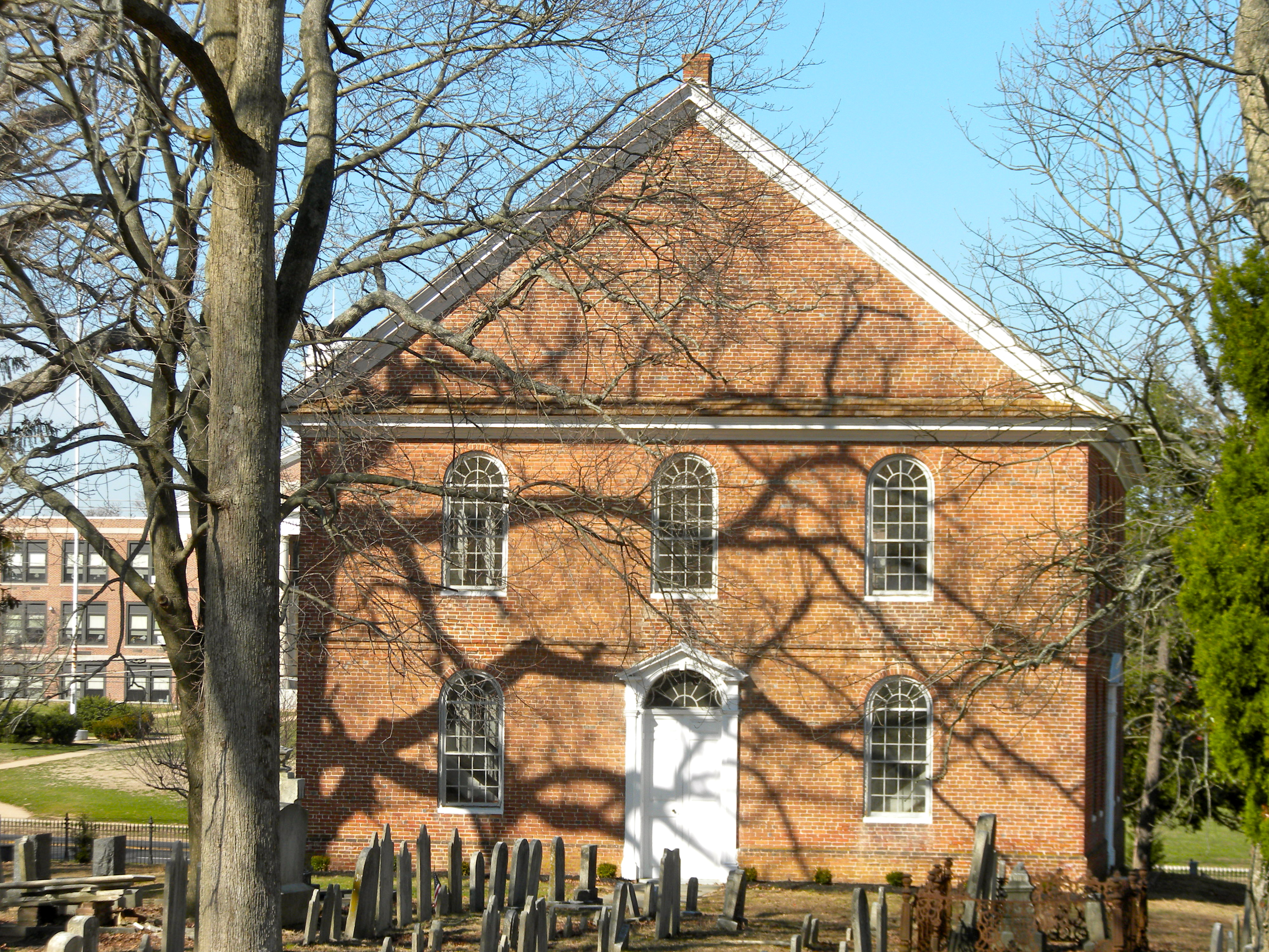 Old Broad Street Presbyterian Church in Bridgeton, New Jersey, on corner of Broad Street and Lawrence. A classic old church with a well known cemetery. On the NRHP in Cumberland County, NJ since 1974. Note that the NRHP coordinates seem to be wrong giving a spot near Broad Street and LAUREL, which is sort of near another Presbyterian Church, which is also impressive architecturally, but not so much as this one. I'll upload that one for possible use in Bridgeton Historical District and put it in the Bridgeton, New Jersey Category.